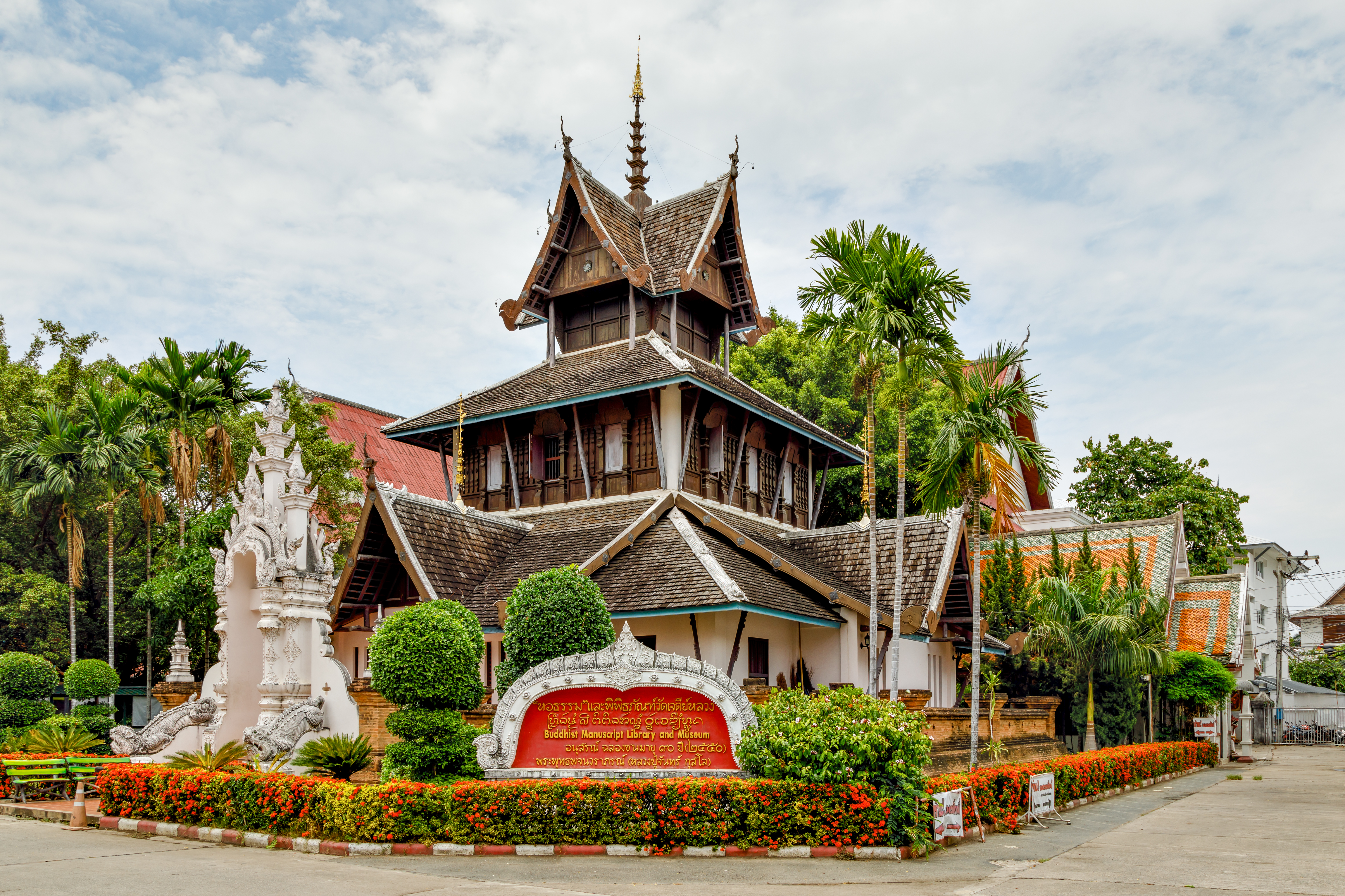 Chiang Mai, Thailand: Buddhist Manuscript Library and Museum